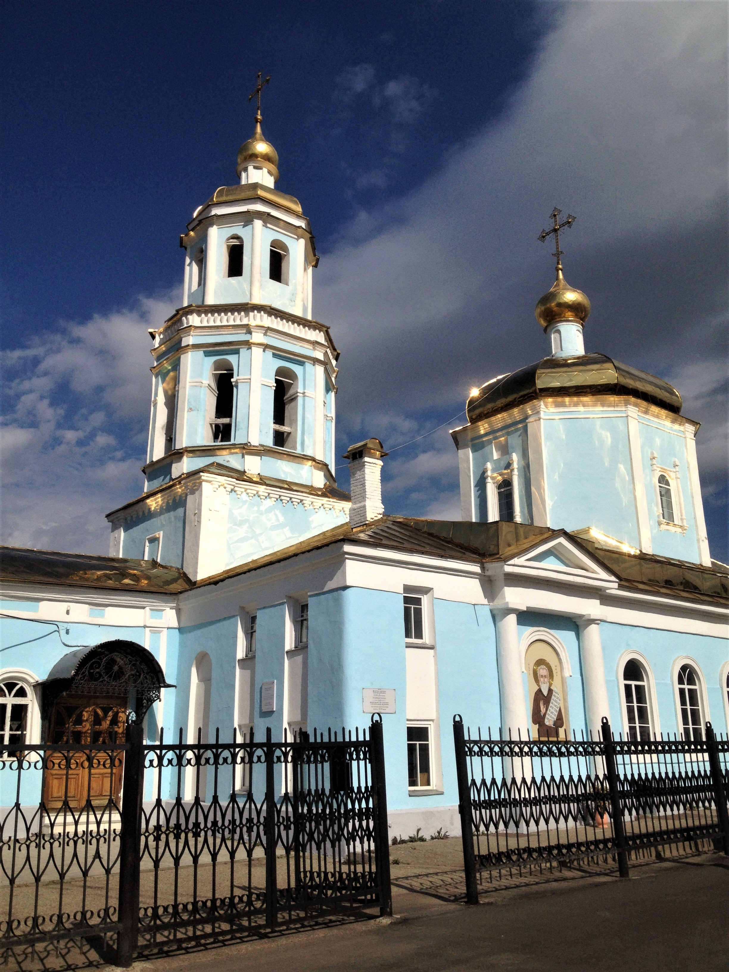 Церковь во имя чудотворной Тихвинской иконы Божией Матери в Казани (13 сентября 2018 года).